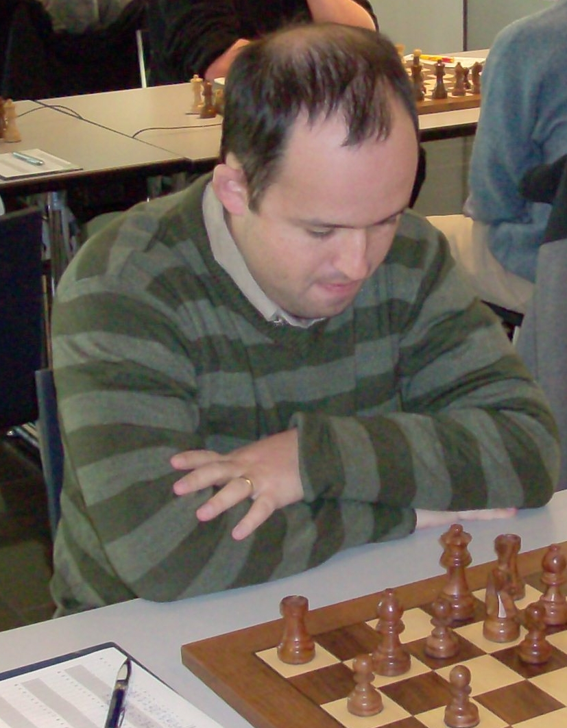 Boris Avrukh, chess grandmaster